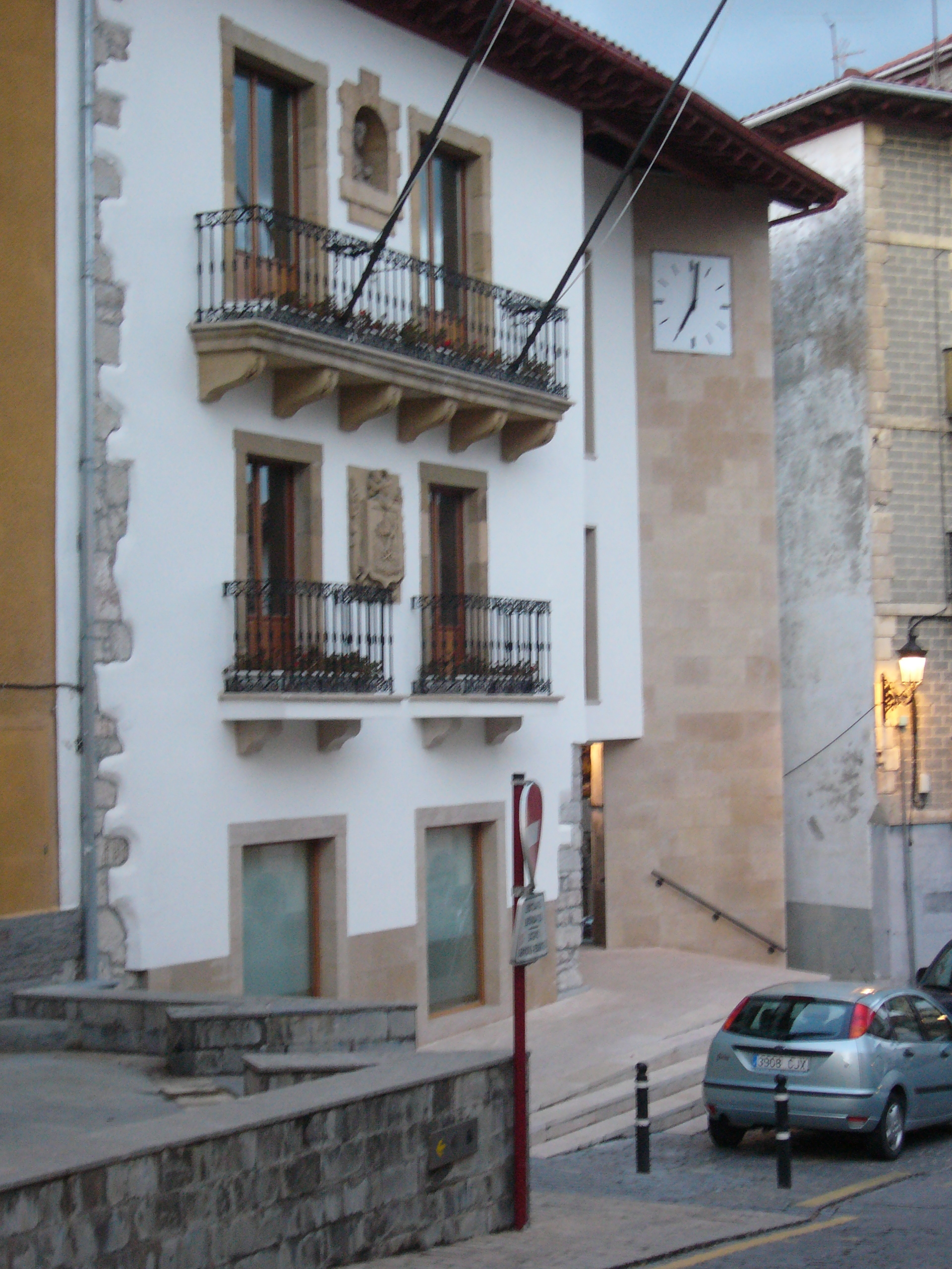 City hall of Zumaia (Gipuzkoa)